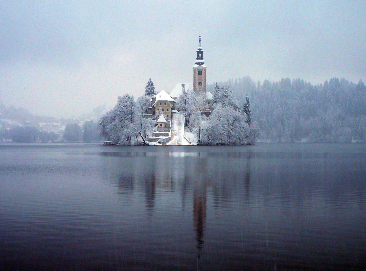 Bled island under the snow.